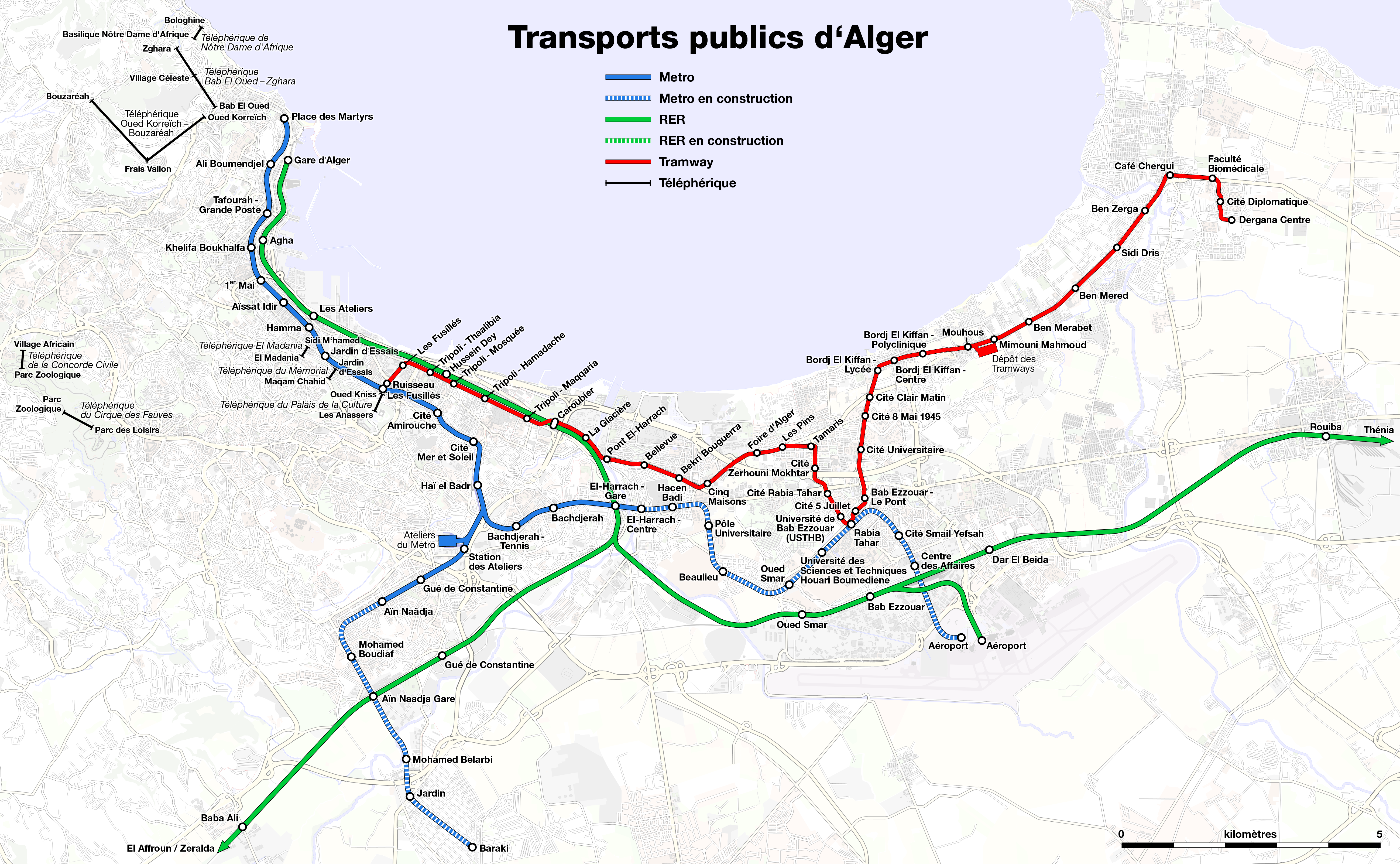 Metro, suburban train and tramway map of Algiers